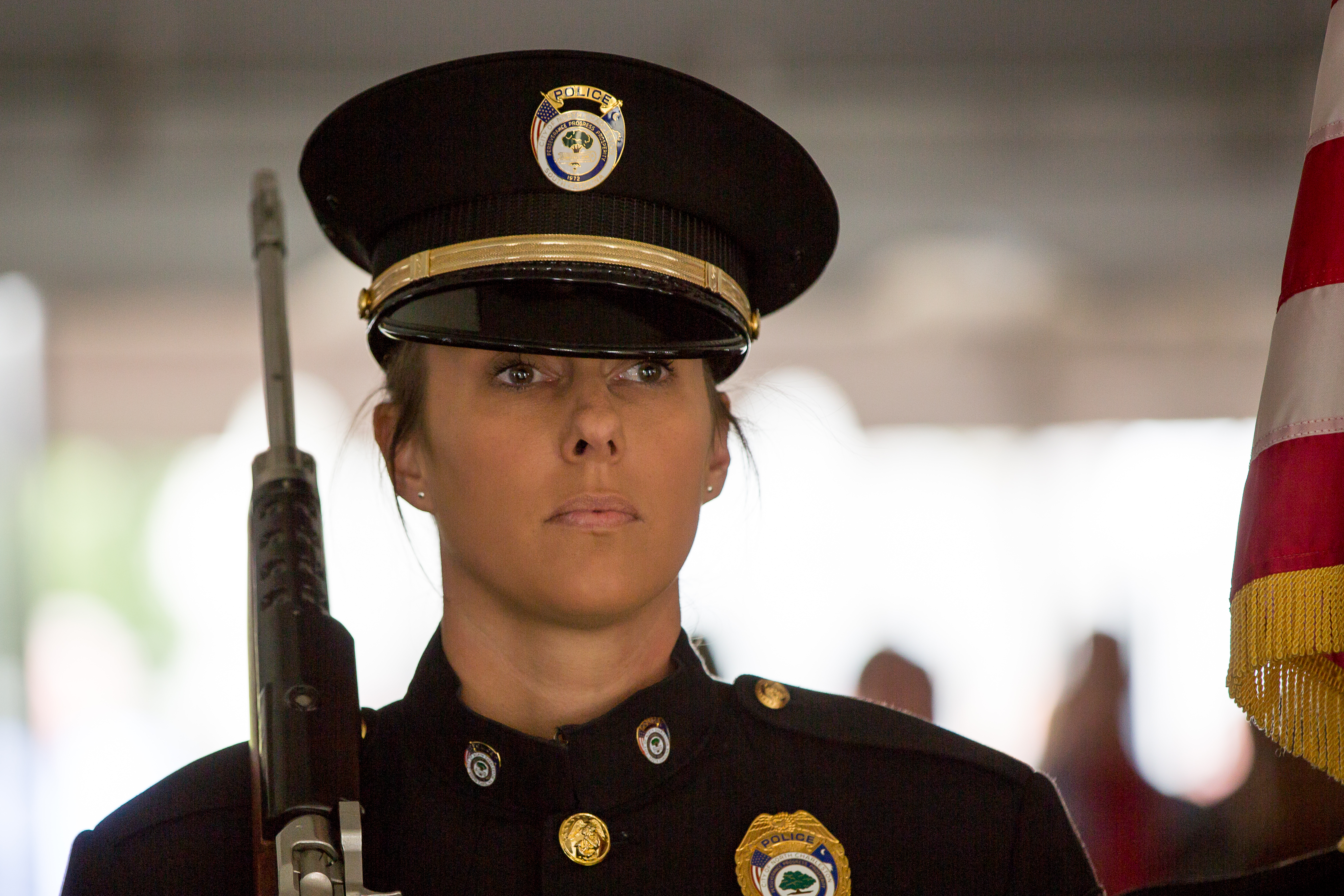 North Charleston hosts its annual Veterans Day tribute at Park Circle. Photo by Ryan Johnson